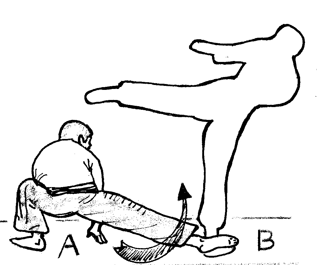 balayage_panthere1.jpg